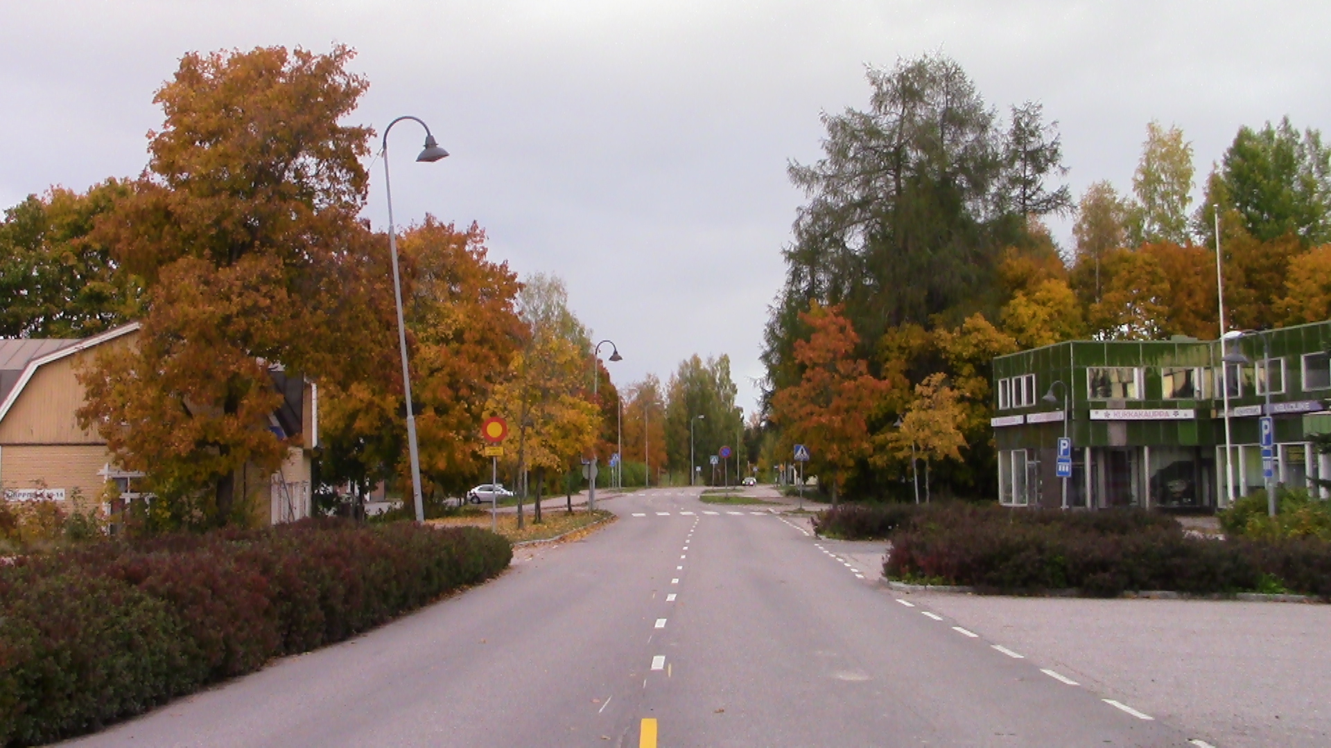 Keskustie road in Hausjärvi, Finland. Most of the local services are located along this road.